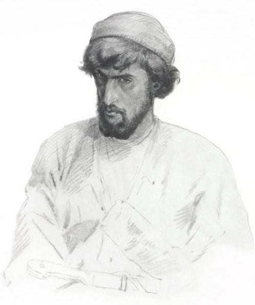 Tusihn.